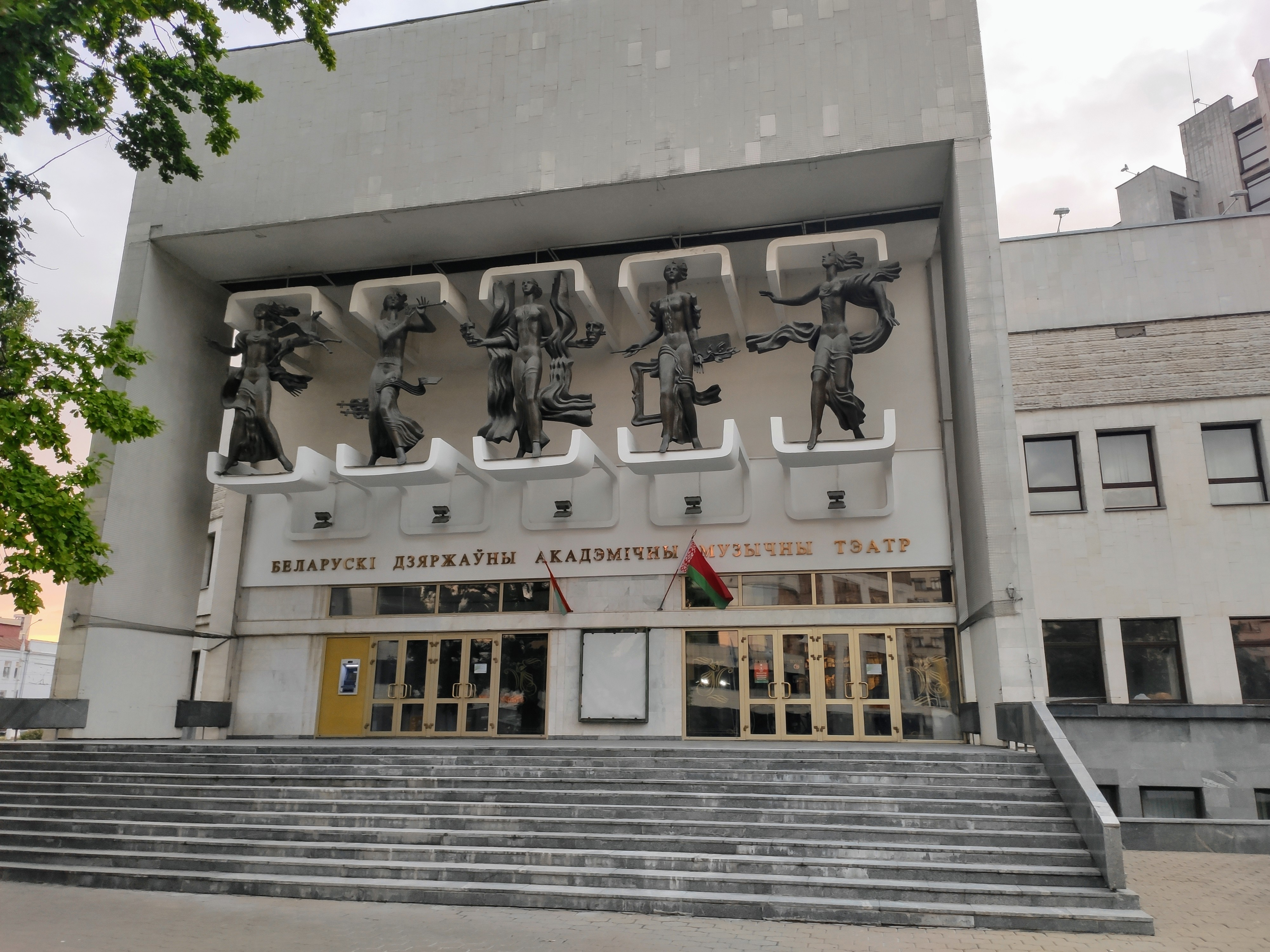 Musical theatre in Minsk